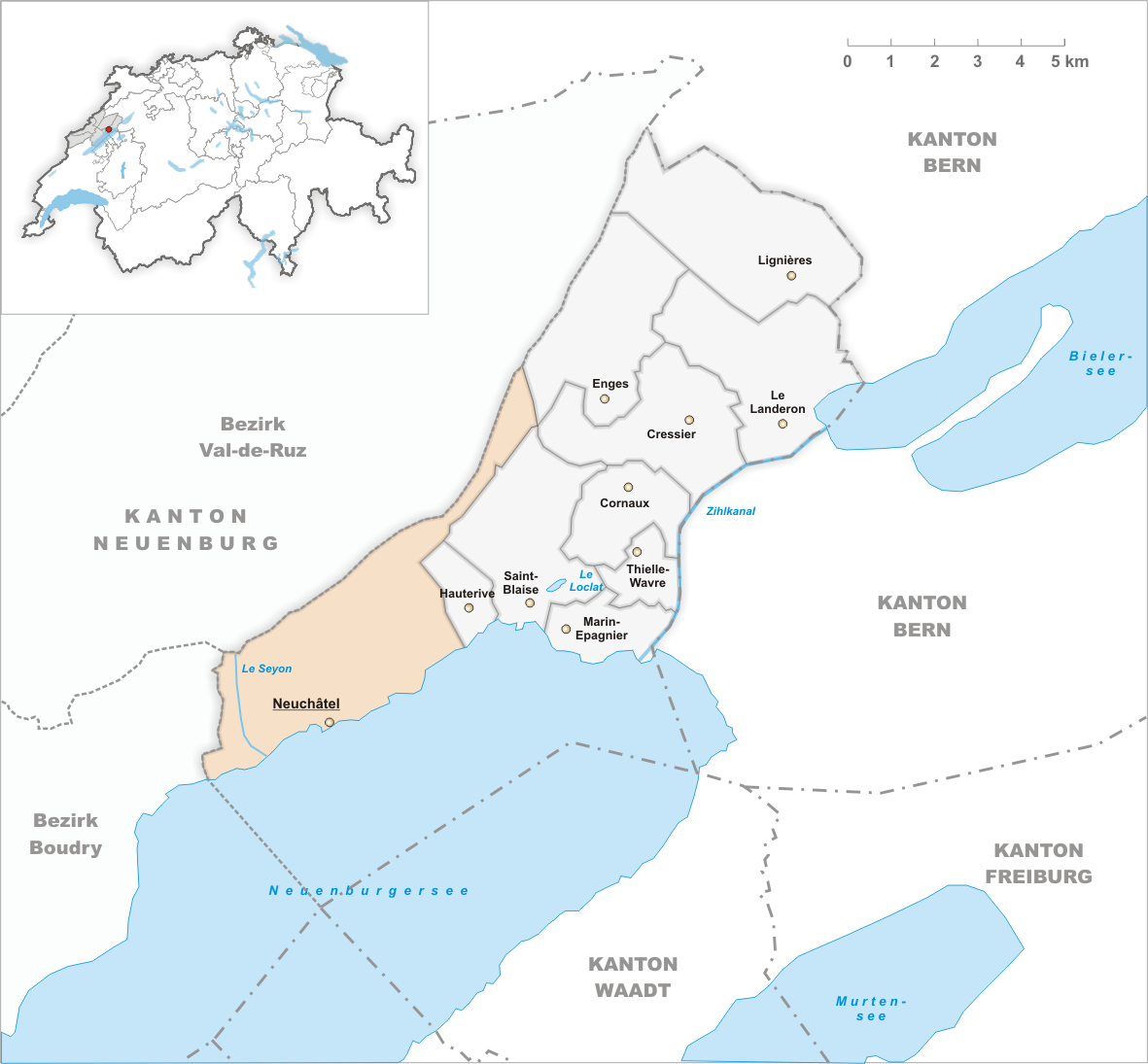 Municipality Neuchâtel